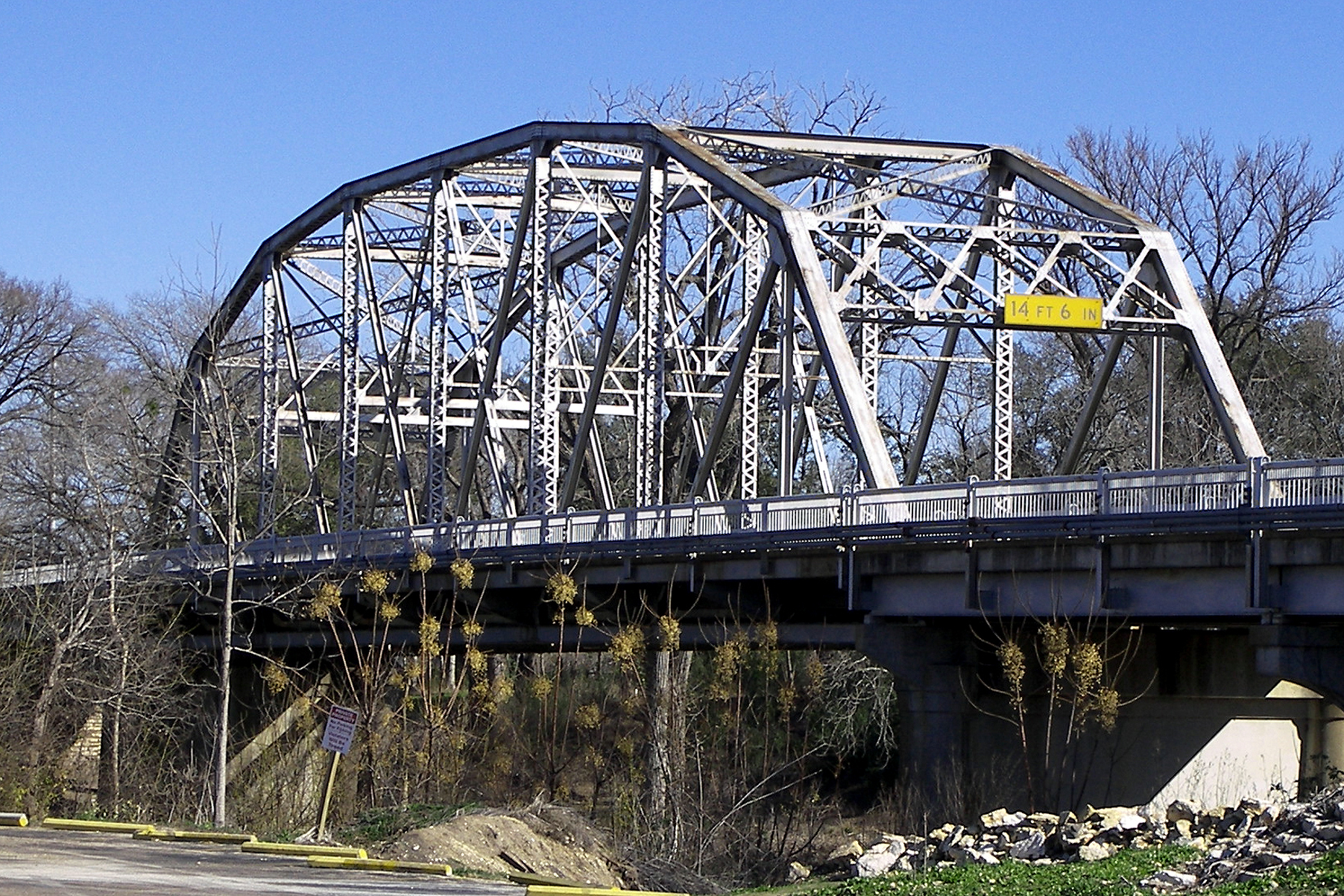 The State Highway 53 Bridge at the Leon River in Bell County, Texas, United States. It was listed on the National Register of Historic Places on October 10, 1996. It carried Texas State Highway 53 in the 1930s.